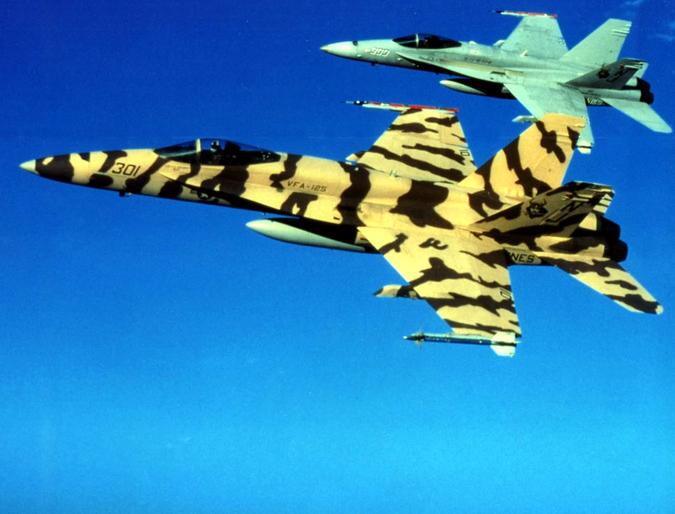 A U.S. Navy McDonnell Douglas F/A-18C Hornets of Strike Fighter Squadron VFA-125 "Rough Raiders" in formation flight out of Naval Air Station Lemoore, California (USA). From 1980 to 2010, VFA-125 trained U.S. Navy and U.S. Marine Corps pilots on the F/A-18A/C Hornet. Note the unusual camouflage.